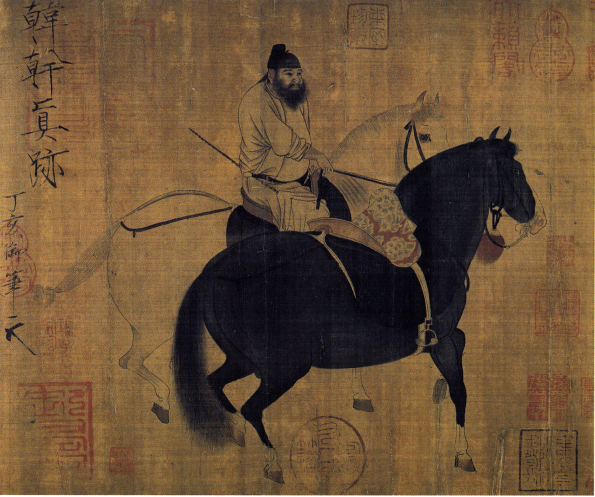 Digitally retouched photograph of a Tang dynasty painting of two prized horses and one rider.